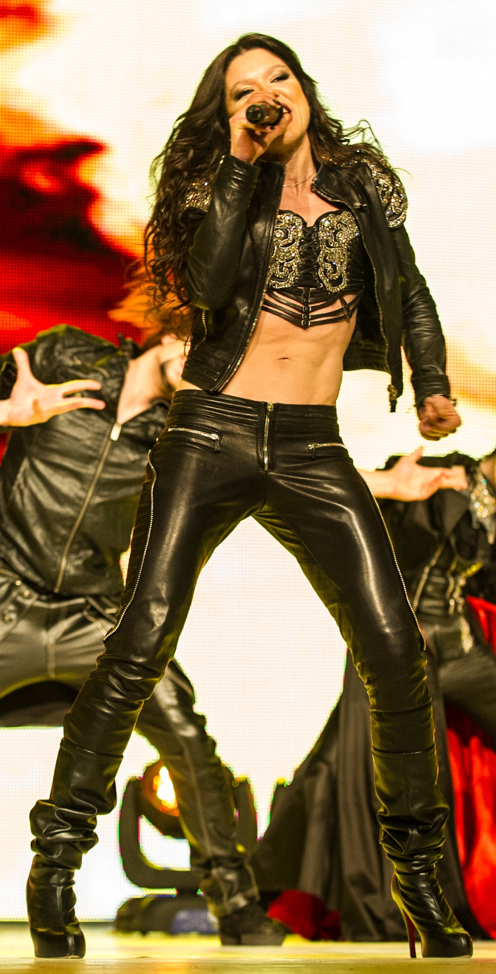 Ruslana Stepanivna Lyzhychko winner of the Eurovision Song Contest 2004. Azerbaijan, Baku Buta Palace.